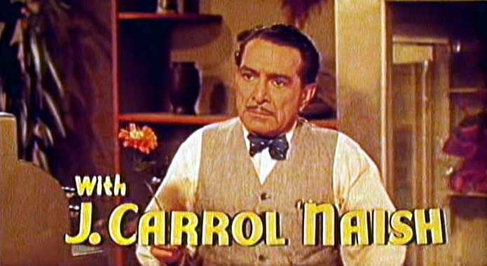 Screenshot from the trailer for the 1955 film Hit The Deck showing J. Carroll Naish.